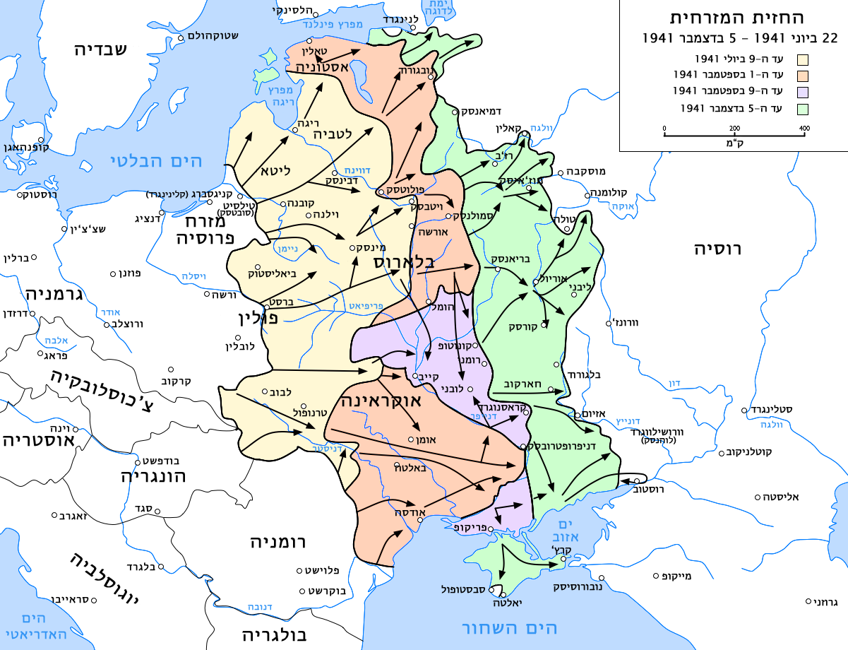 Map of the Eastern Front (WWII), 1941-06-21 to 1941-12-05 to 9 July 1941 to 1 September 1941 to 9 September 1941 to 5 December 1941